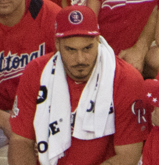 Members of the 2018 National League All-Star Team during the 2018 Major League Baseball Home Run Derby at Nationals Park.